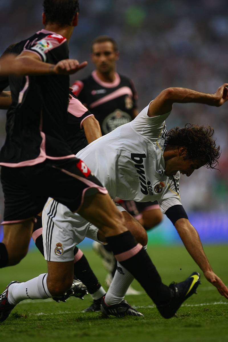 Raul Gonzalez of Real Madrid in action during the La Liga match between Real Madrid and Deportivo La Coruna at the Santiago Bernabeu stadium on August 29, 2009 in Madrid, Spain.